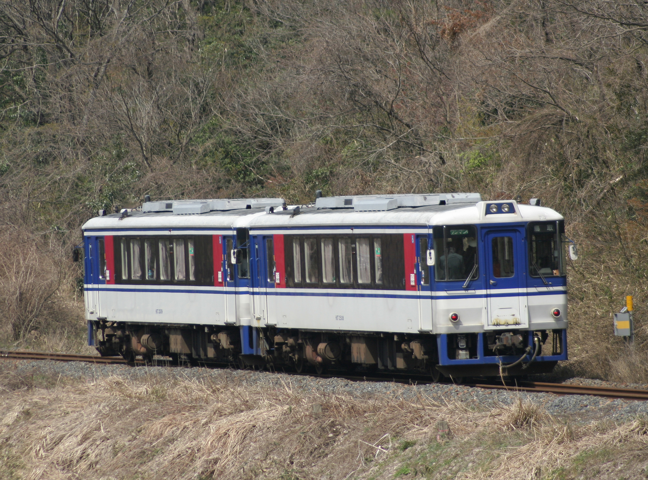 Chizu Express Company HOT 3500 series 3508・3509